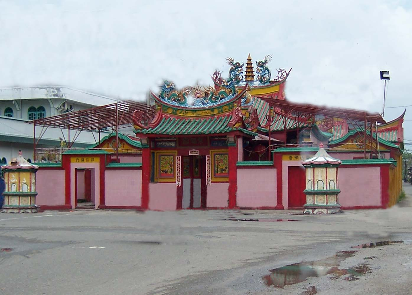 In Hok Kiong Temple in central downtown Bagansiapiapi